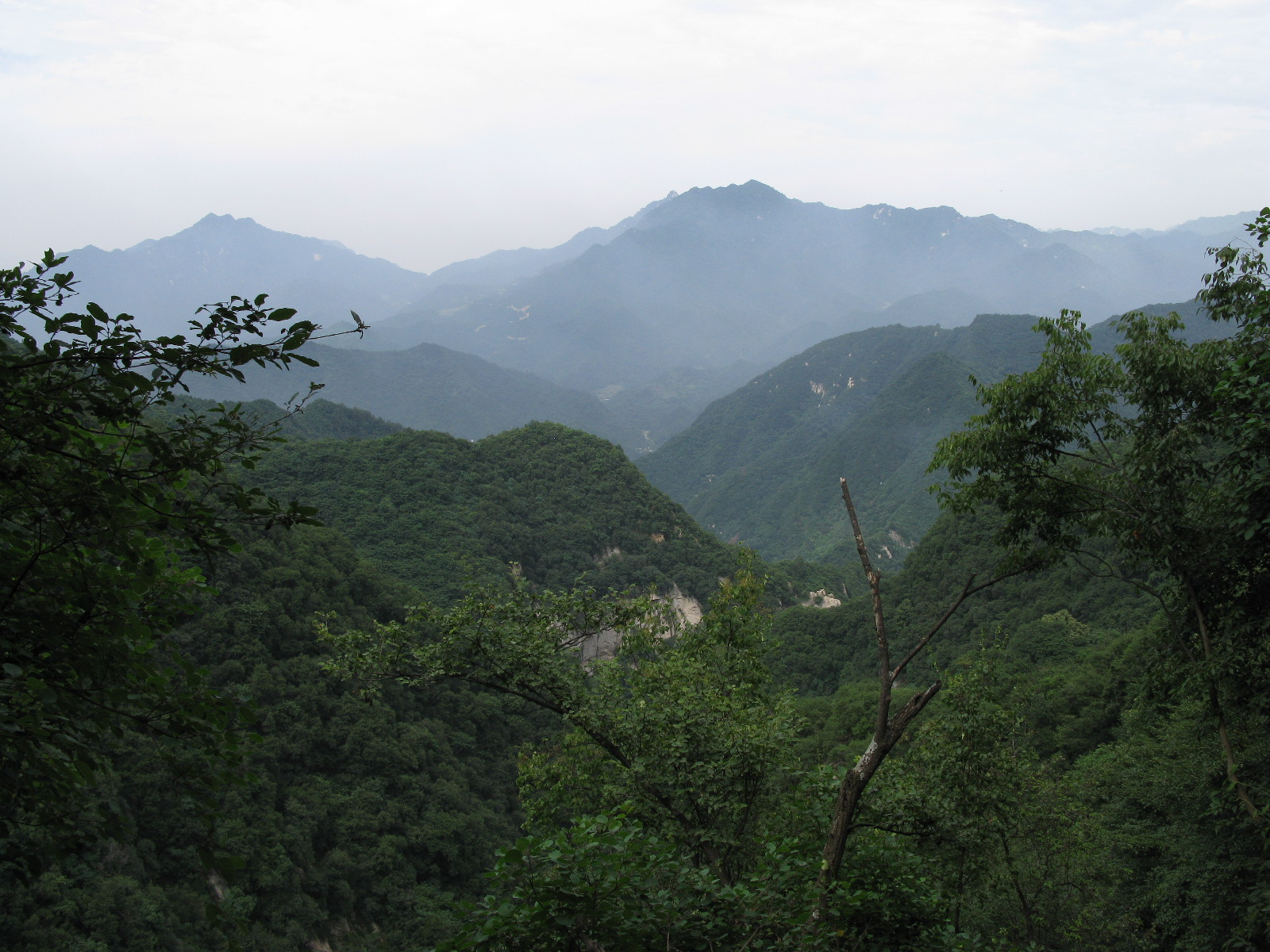 Qin Ling mountains at Fengyukou